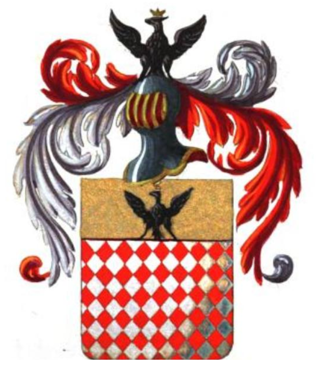 Coat of arms of the Genoese branch of the Grimaldi family